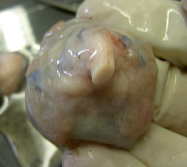 Calf eyeball from a dissection done at University of Pennsylvania on 2005 Oct 13. In this photo, the optic nerve is visible leaving the posterior of the (now halved) eye. Muscle and fat tissue have been cut away. Permission is granted by Mark Fickett (the photographer and student/dissector) to use, modify, and distribute this image so long as attribution to him is maintained. (Notification upon use is requested but not required.)